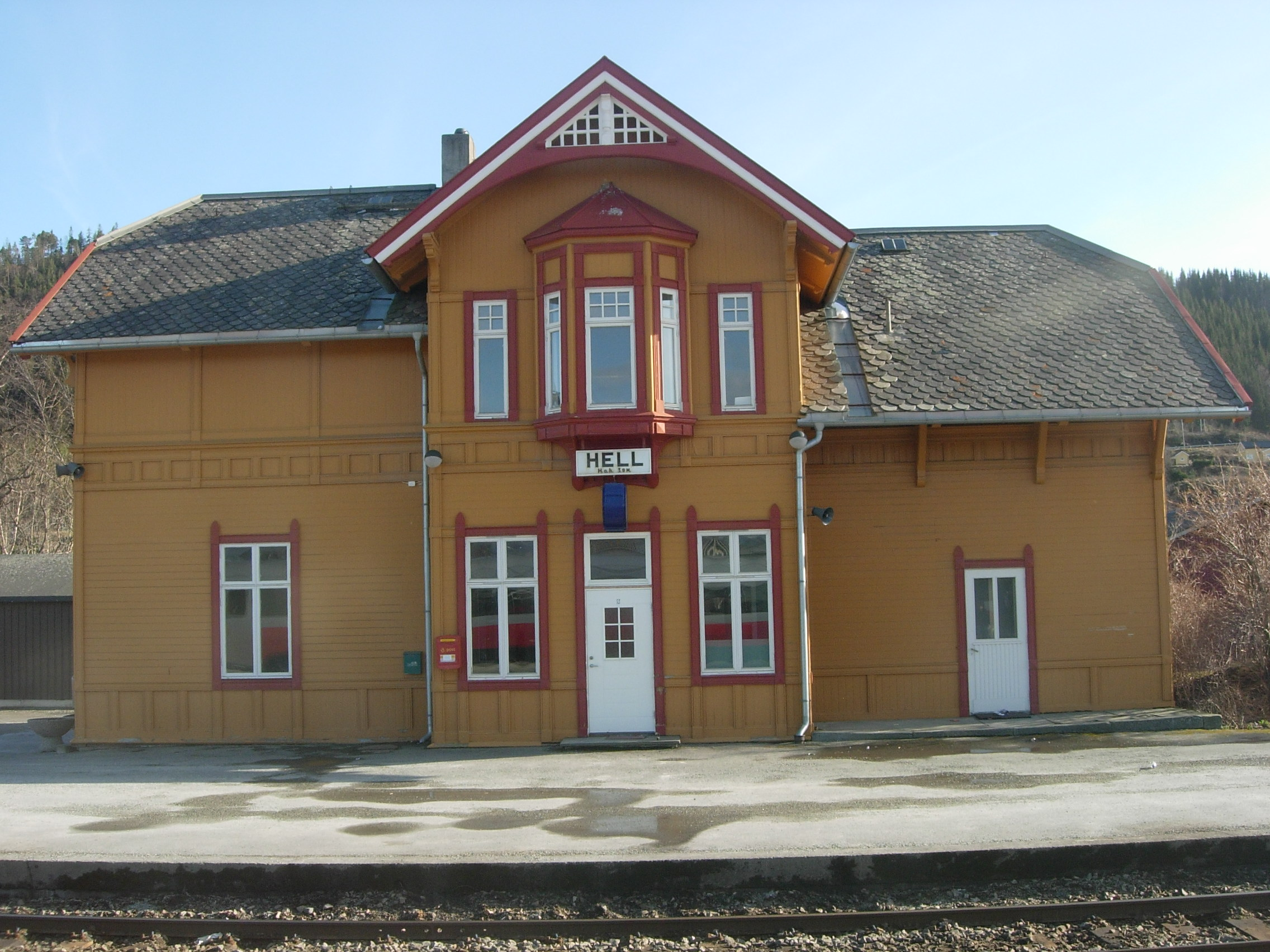 Hell station on Nordlandsbanen, Norway